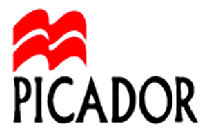 This is a logo